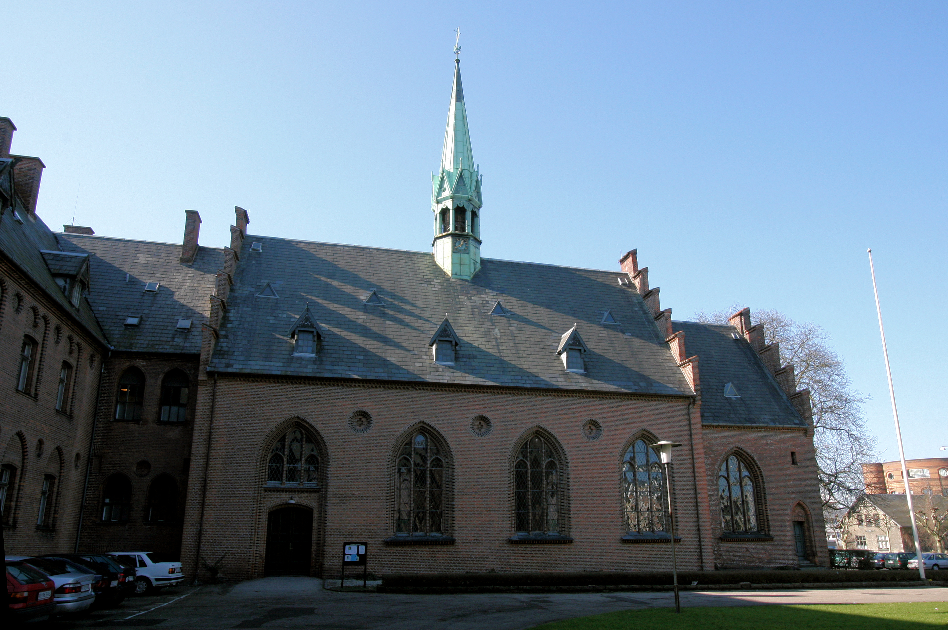 Emmauskirken, Frederiksberg, Denmark. Private church belonging to Diakonissestiftelsen (Danish Deaconess Community), Exterior from east